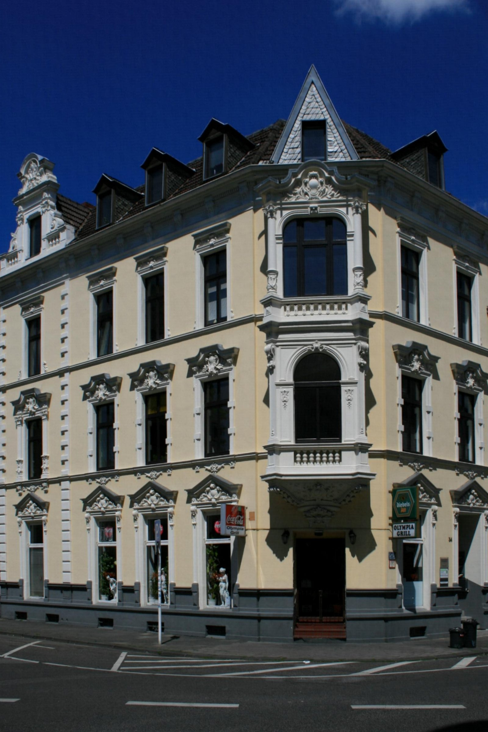 Cultural heritage monument No. M 006 in Mönchengladbach